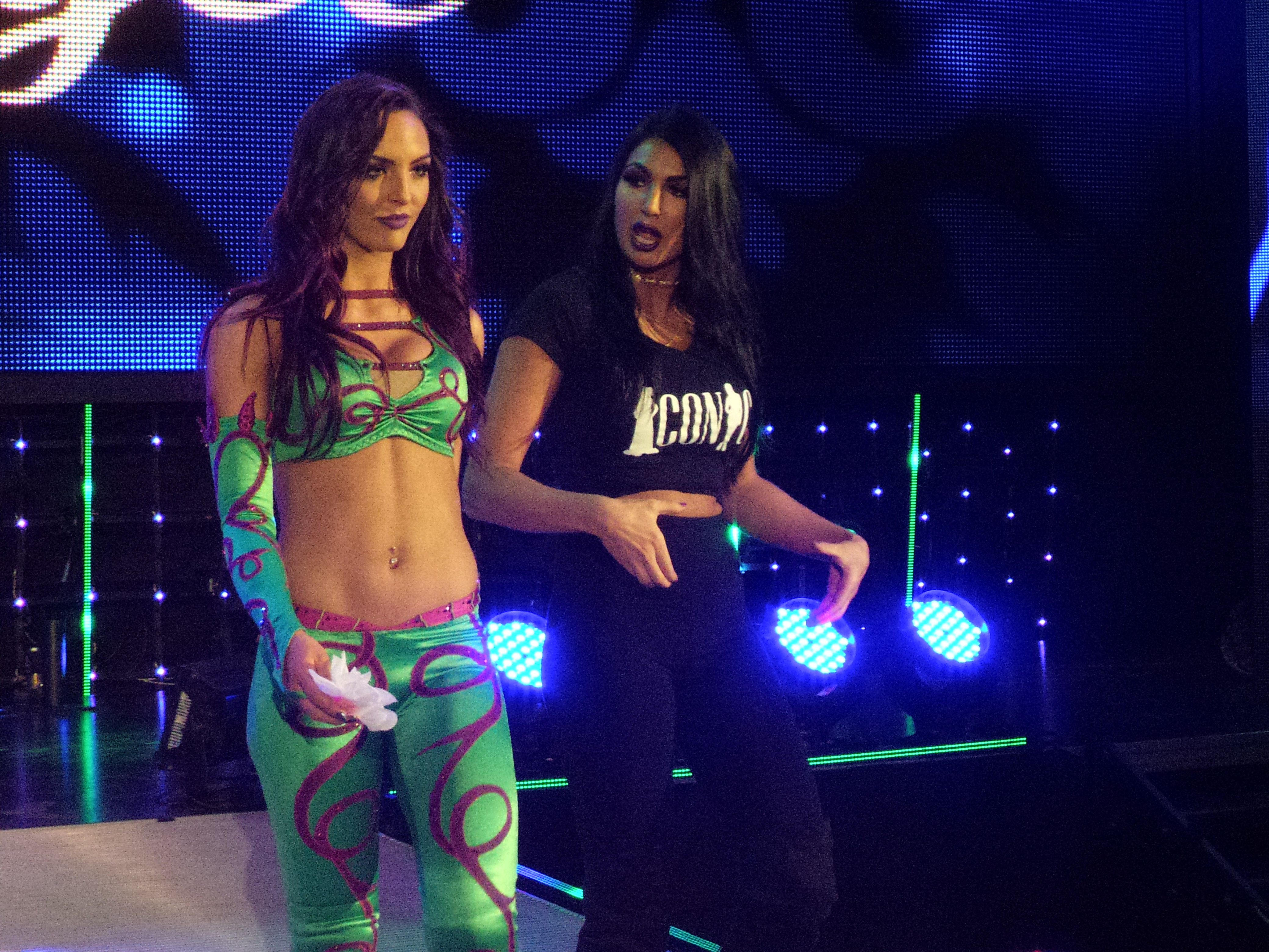 The IIconics in 2017.